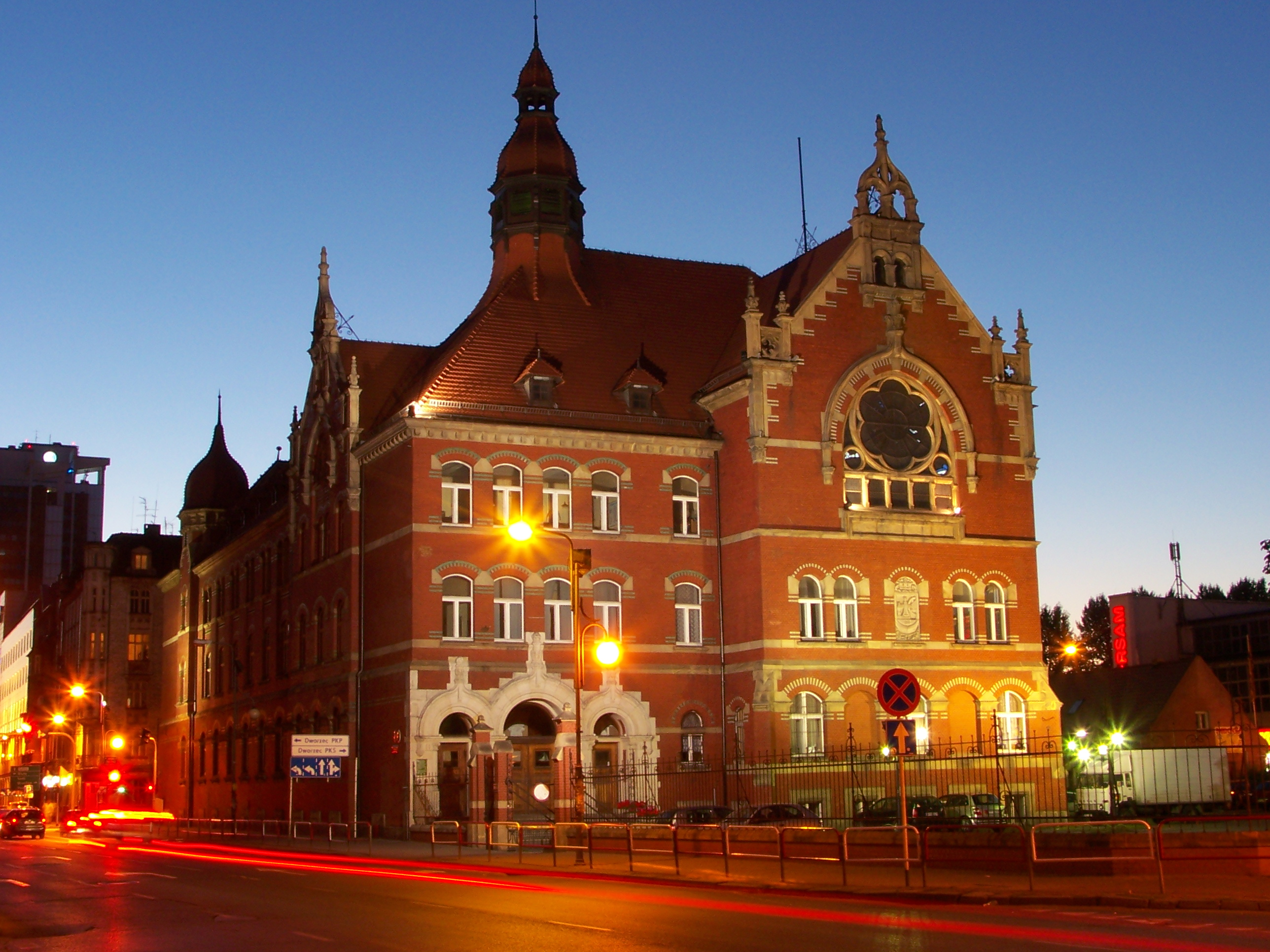 The Gymnasium in Katowice is since his erection a school at Mickiewicza Street and was built to 1900 in the stile of Neorenaissance with elements of Neogothic.